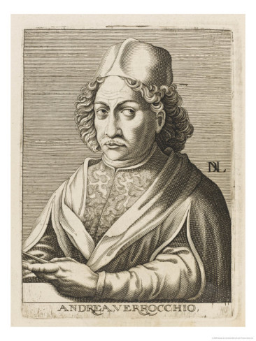 by Nicolas de Larmessin